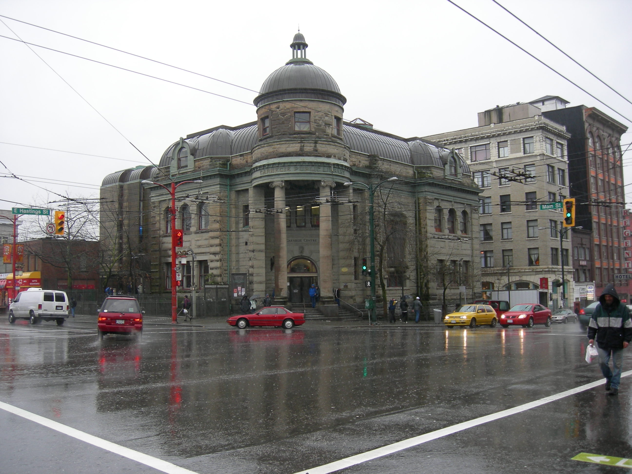 Carnegie Center, former Carnegie Public Library, Main and Hastings, Vancouver, British Columbia.